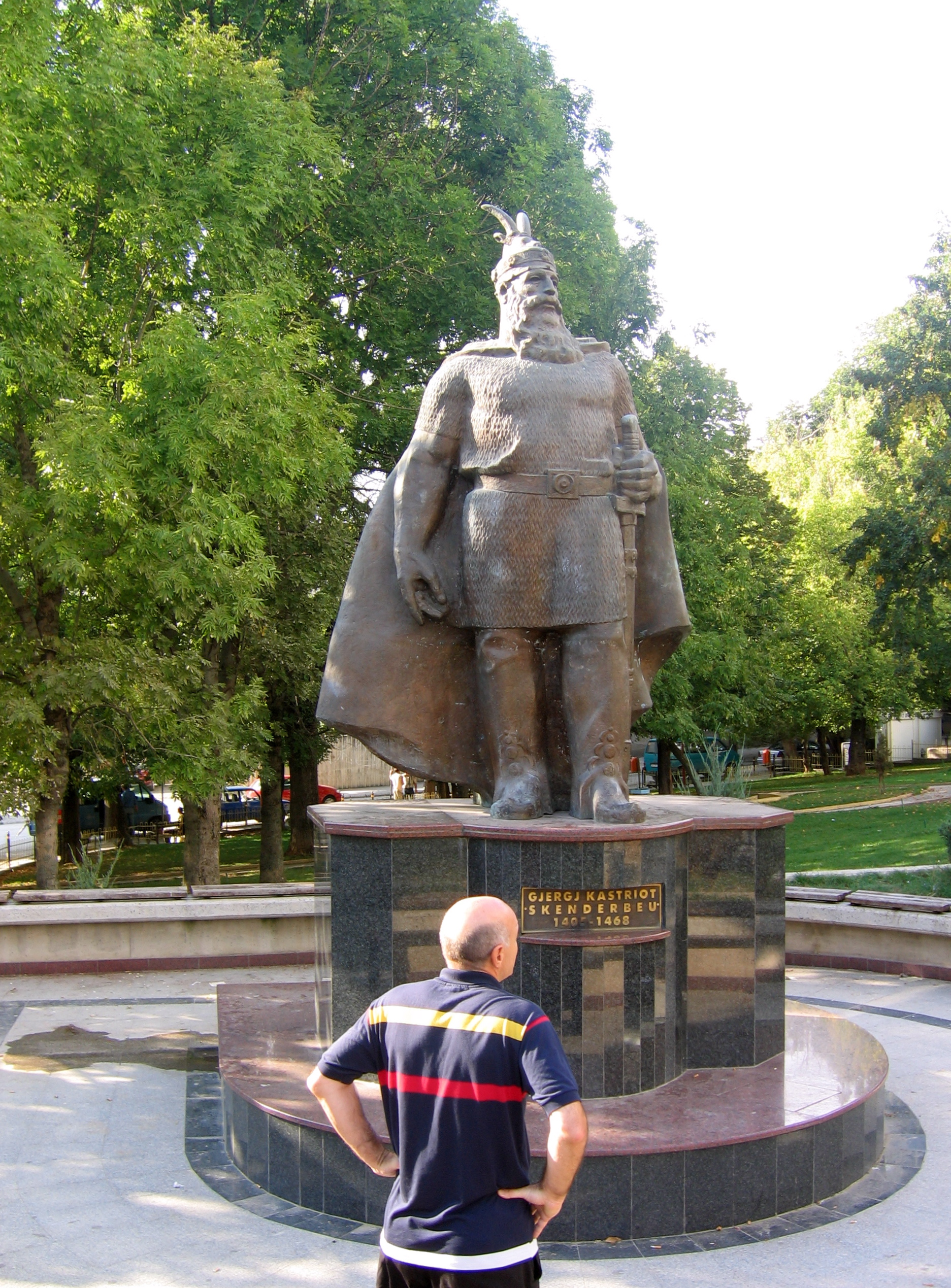 Skenderbeg monument in Debar, Macedonia